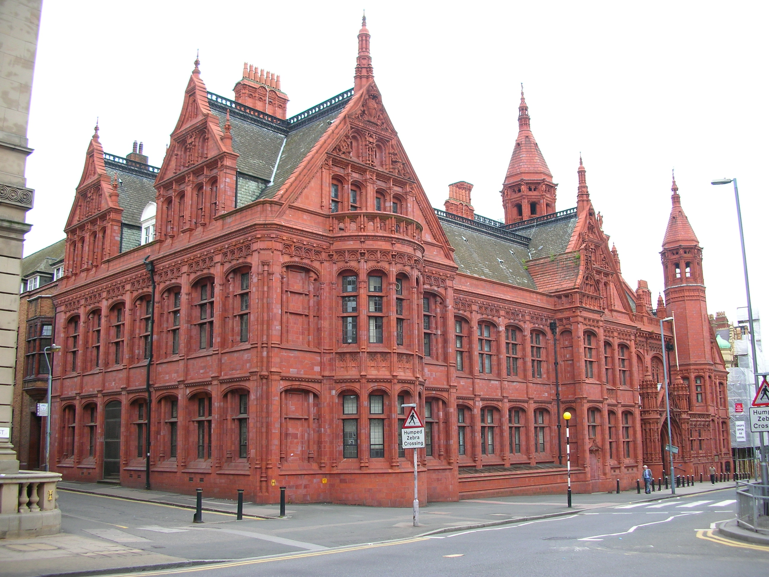 The Victoria Law Courts, Birmingham, England. This is a Magistrates' Court. Distinctive red brick and terracotta building on Corporation Street. Designed by Aston Webb & Ingress Bell. Photographed by me. Oosoom